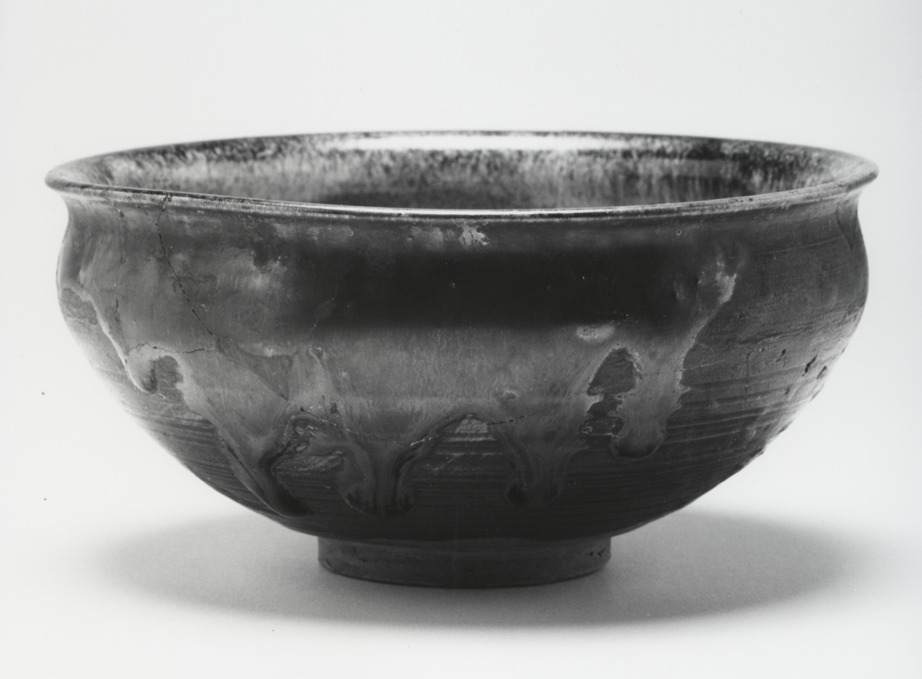 This bowl was made by the Takatori potters of northern Kyushu.